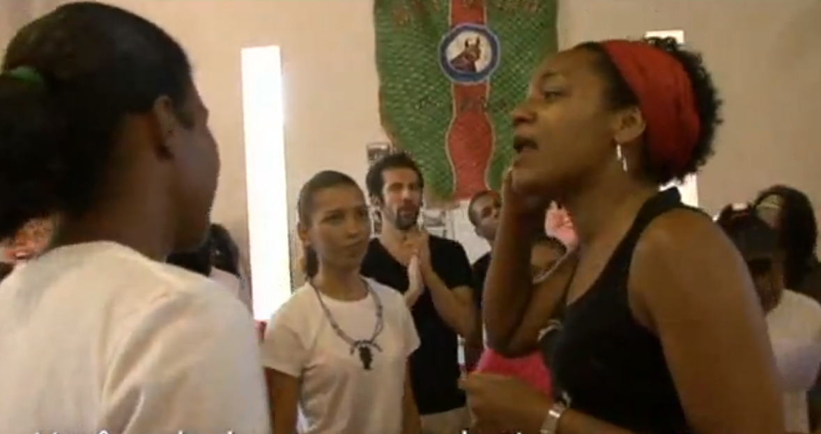 Helene Faussart em oficina de canto para jovens em Olinda - Pernambuco.